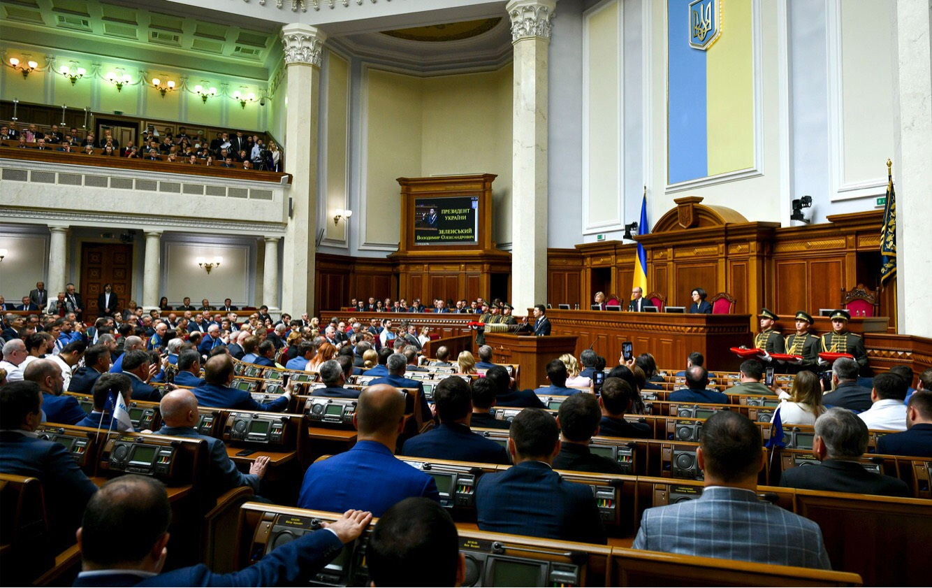 Volodymyr Zelensky presidential inauguration, 20th May 2019